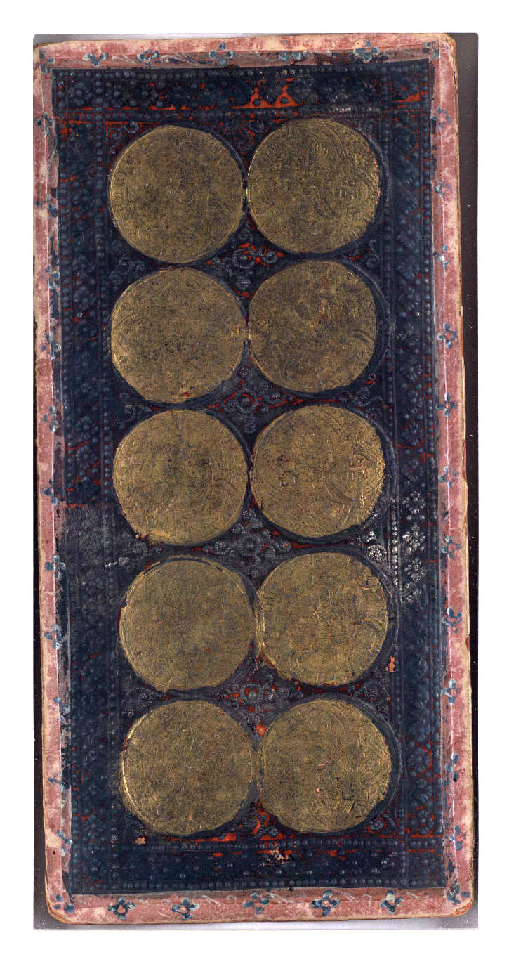 Ten of Coins from the Visconti tarot deck.